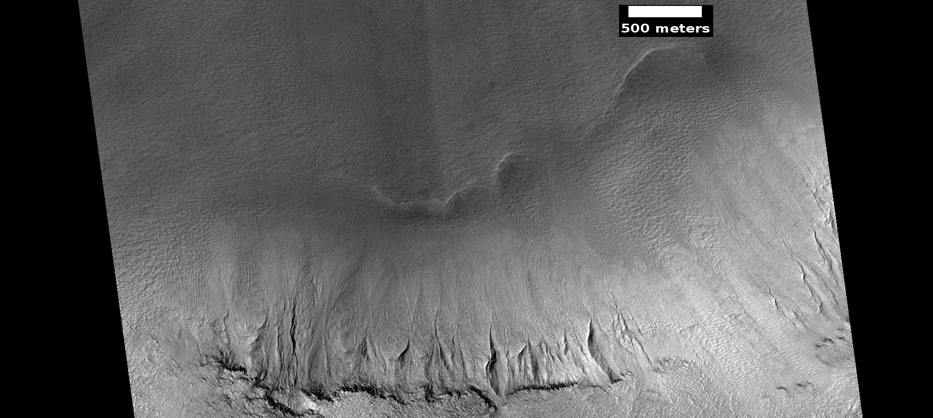 Gullies on wall of Liu Hsin Crater, as seen by hirise, under HiWish program